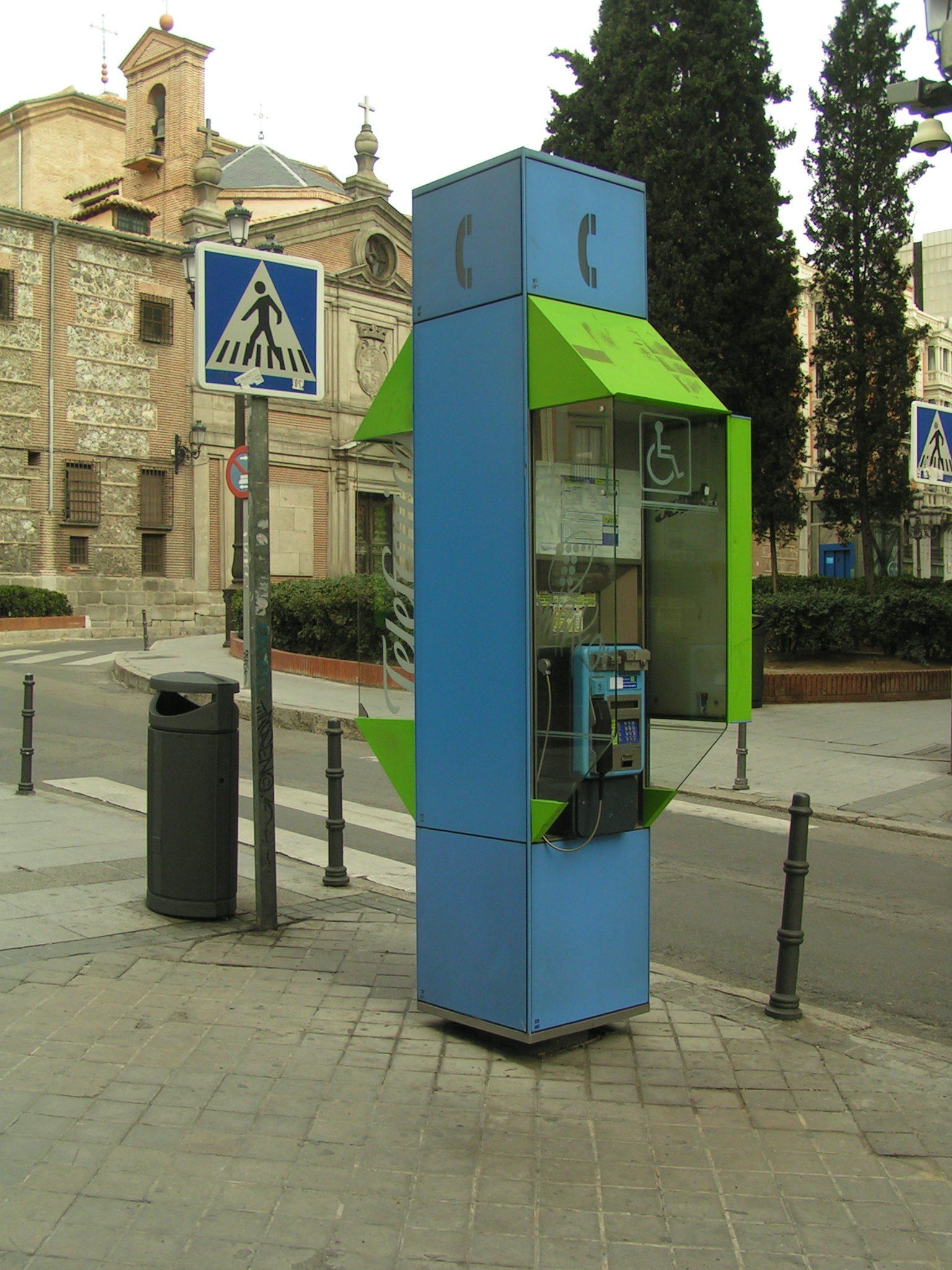 Spanish telephone booth of Telefonica in Madrid, Spain